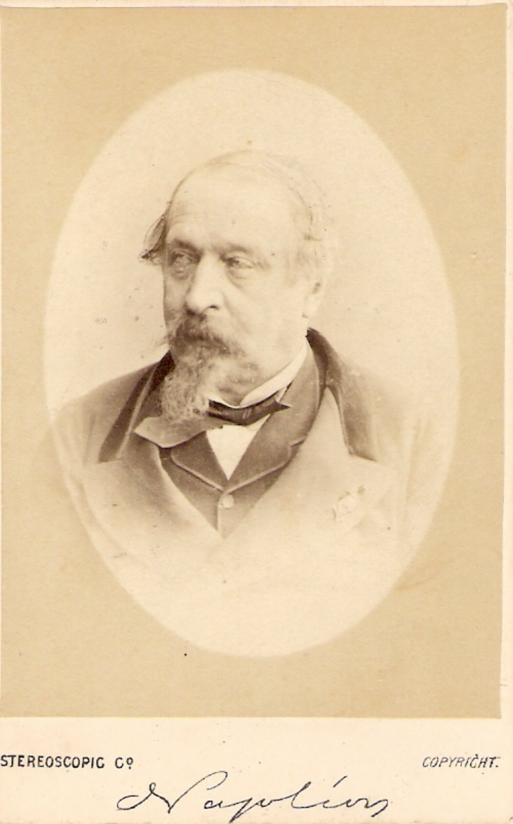 Napoleon III, c.1870